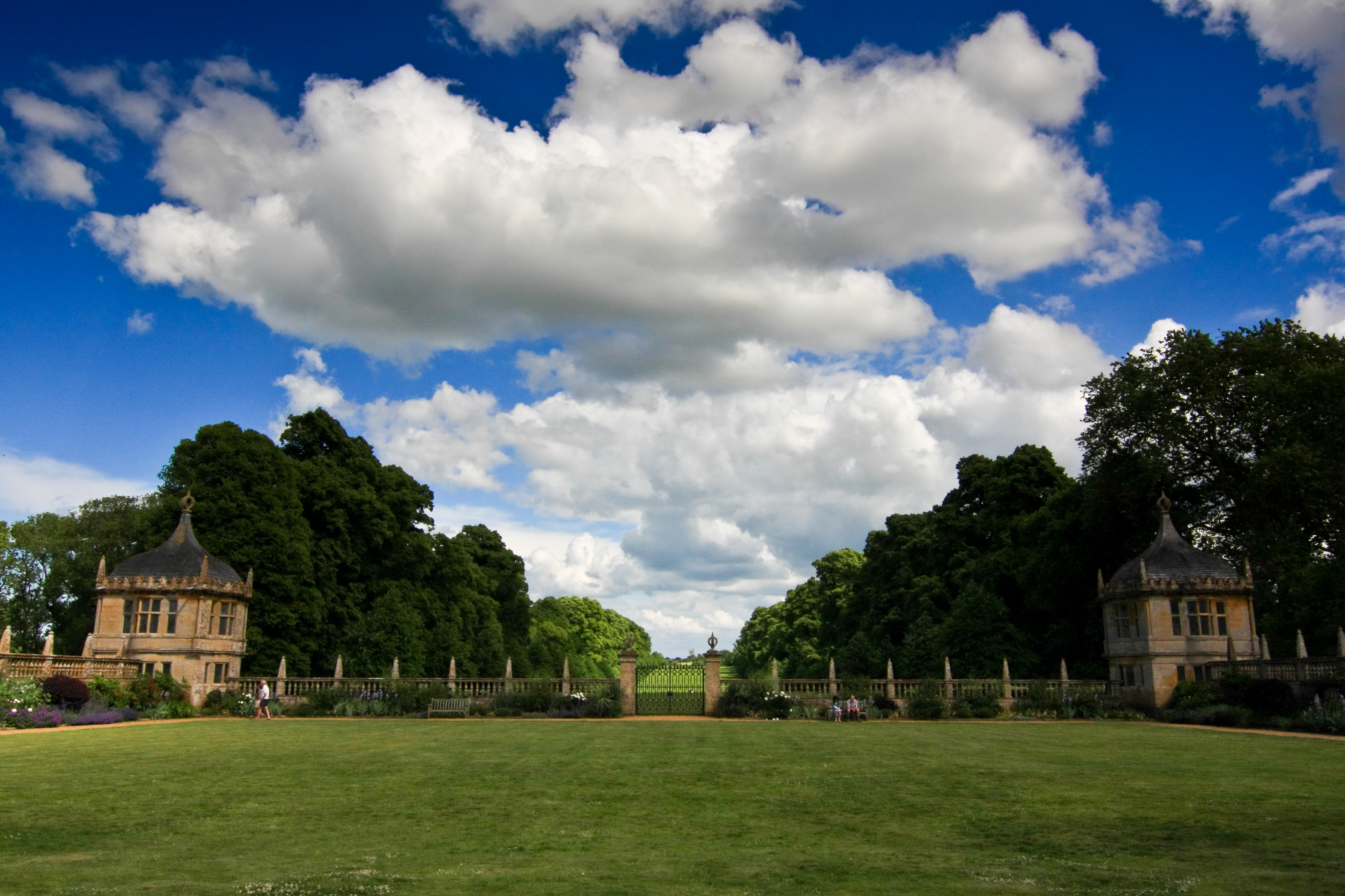 At rear of Montacute House